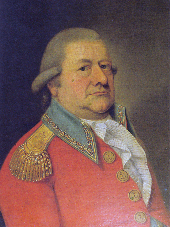 Portrait of the german captain, merchant and shipowner Carl Philipp Cassel (1744–1807) from Bremen.